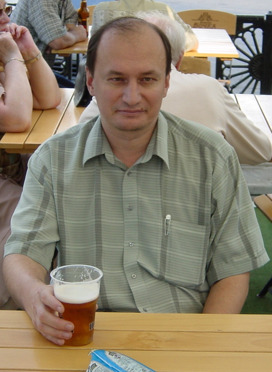 Oleg Pervakov, chess study composer, after a hard day as co-organizer of the PCCC-congress 2003 in Moscow, having his beer at the metro station nearby the Central Chess Club